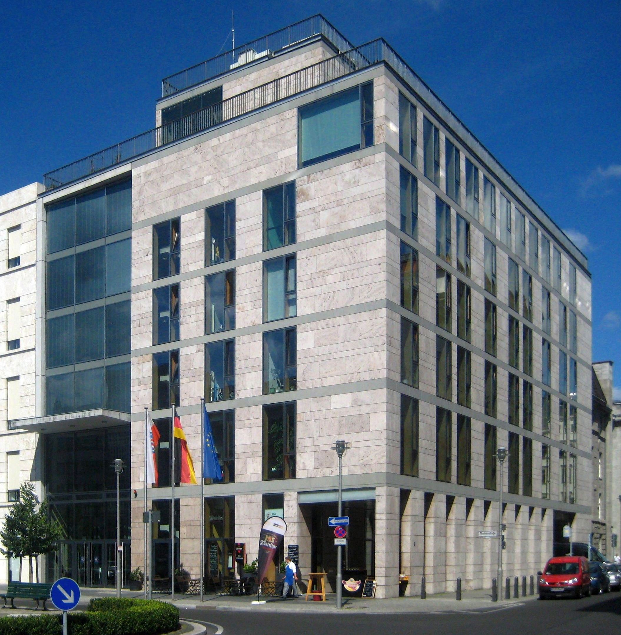 Representation of the state of Thuringia to the federal government at Mohrenstraße No. 64, corner of Mauerstraße in Berlin-Mitte. The building was constructed from 1997 to 1999 to a design by the architectural bureau Worschech & Partner from Erfurt.